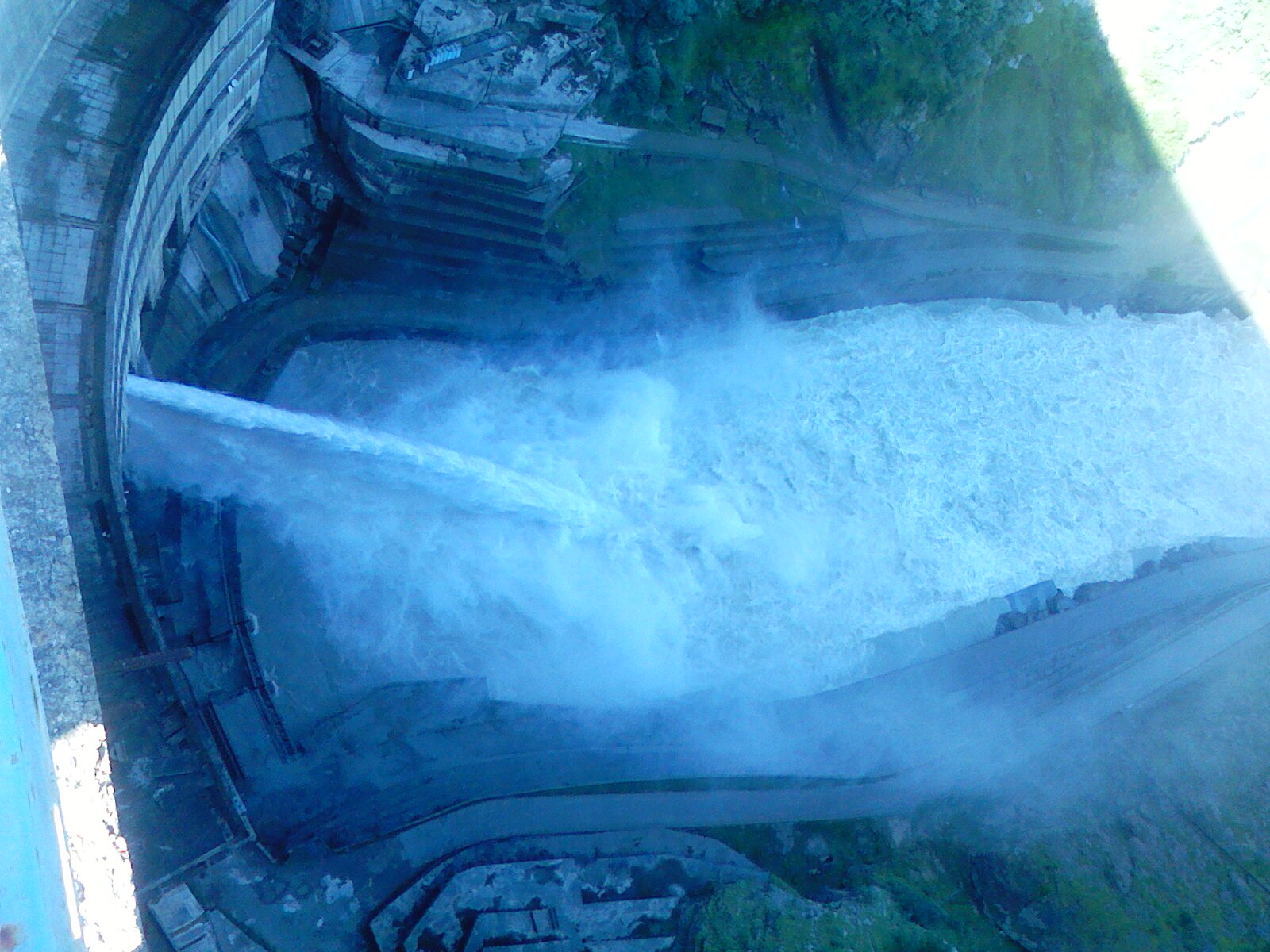 eniguri dam